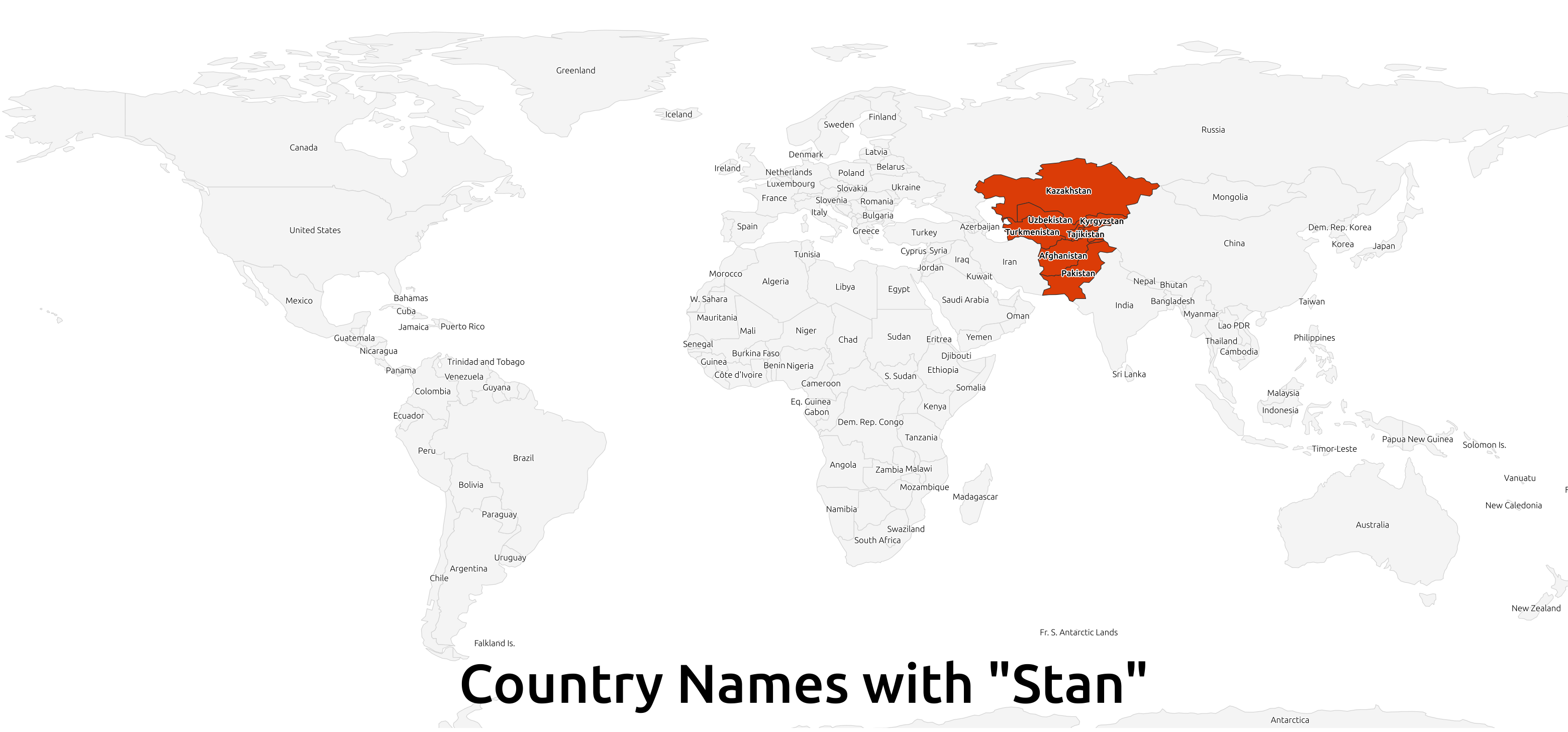 The suffix en:-stan is derived from the Persian word for place